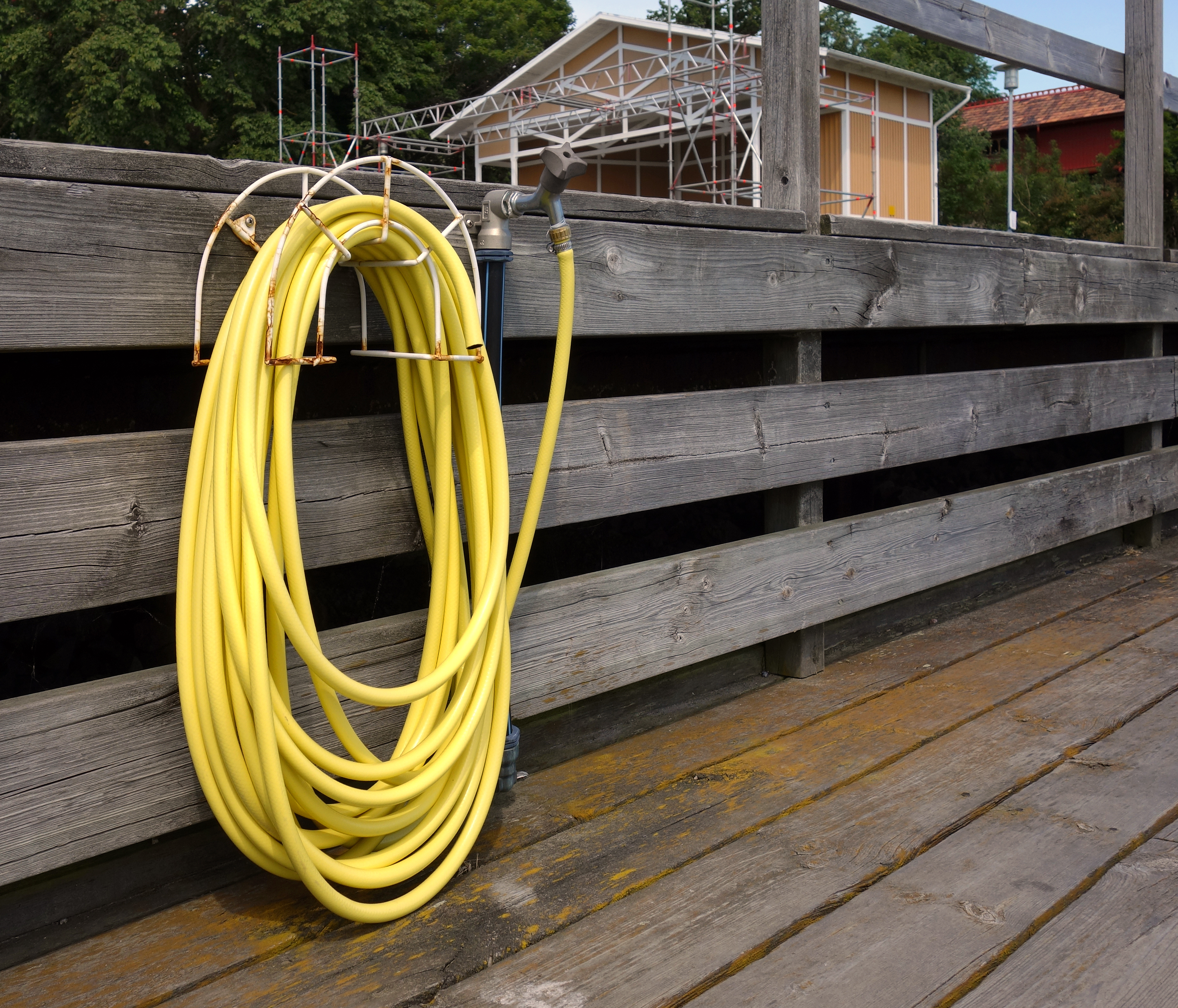 Yellow hose and tap in the south harbour, Lysekil, Sweden.